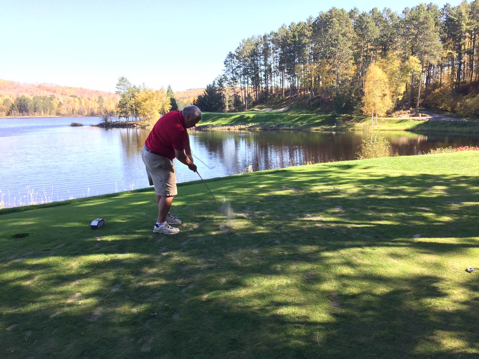 Golf swing captured in Fall 2016 by Apple iPhone 6. High-Dynamic-Ranging (HDR) enabled getting good exposure on both the shaded grass and the bright sky. However, the merging of images by HDR created a ghost effect from the fast moving subject.